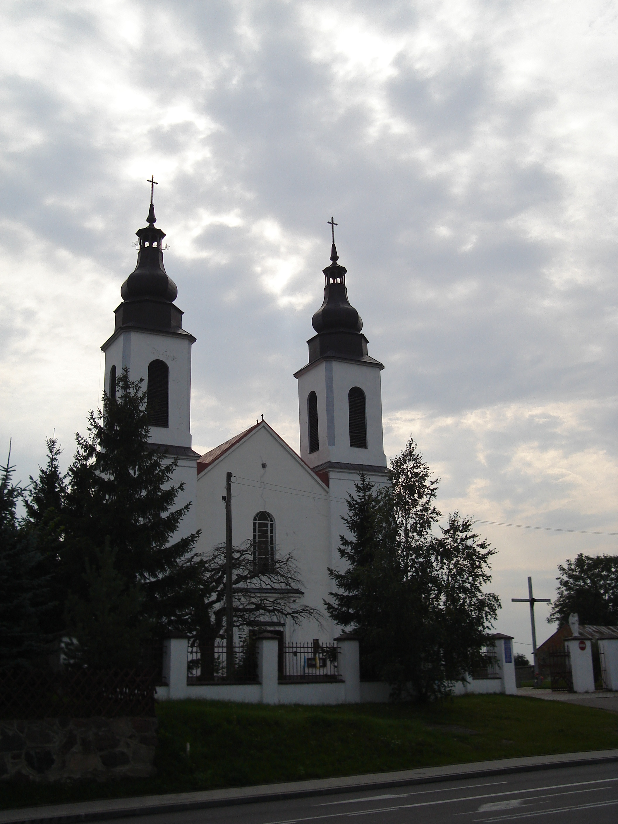 Catholic church founded in 1936, Bakałarzewo, Poland